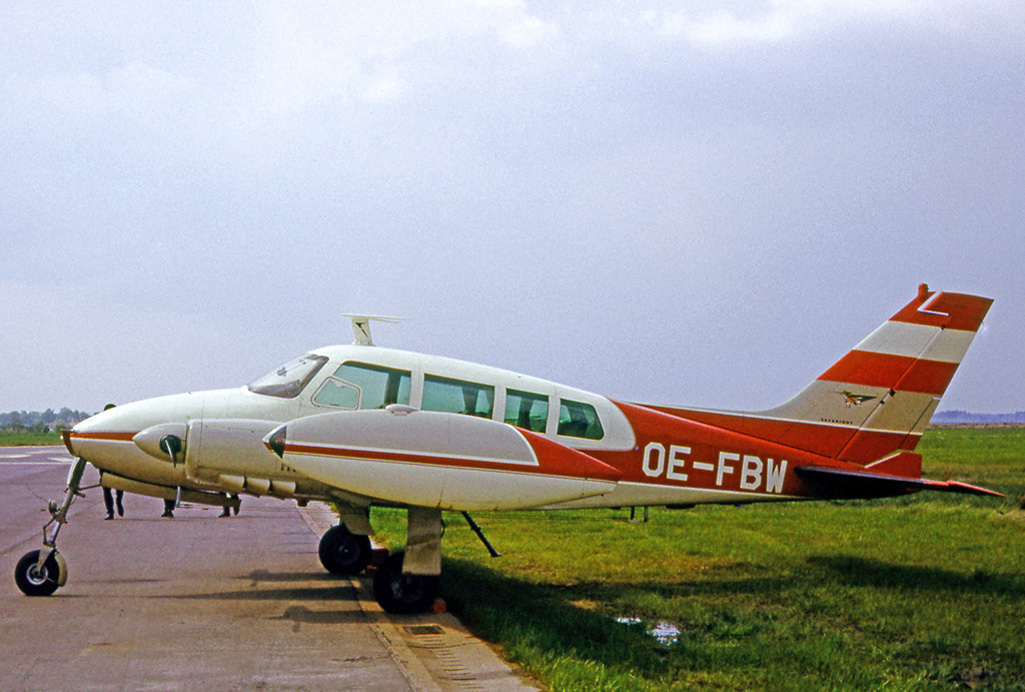 Cessna 320 Skyknight OE-FBW from Austria at the 1966 Hanover Air Show